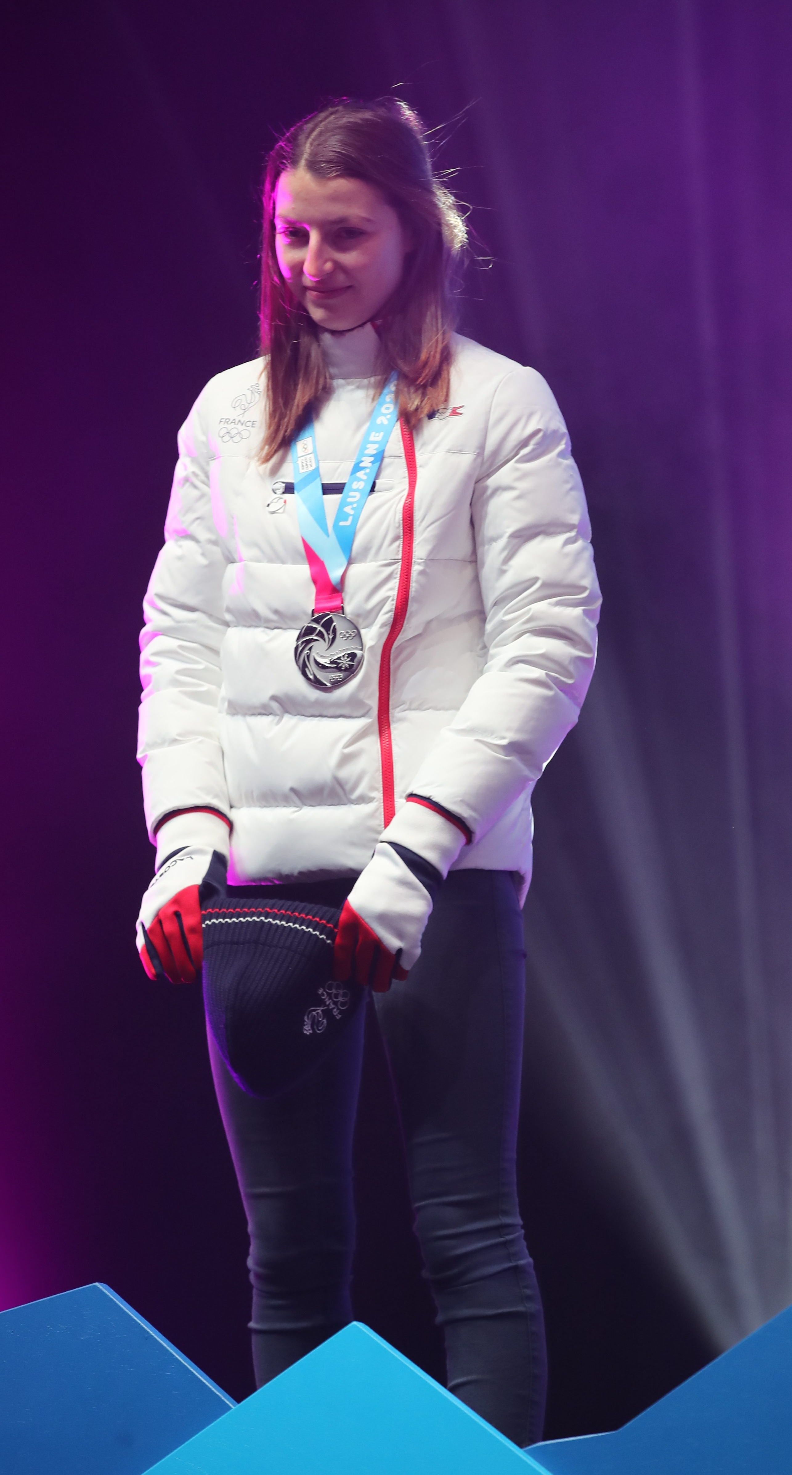 Medal Ceremony of Ski jumping – Women's Individual at the 2020 Winter Youth Olympics in Lausanne on 19 January 2020.